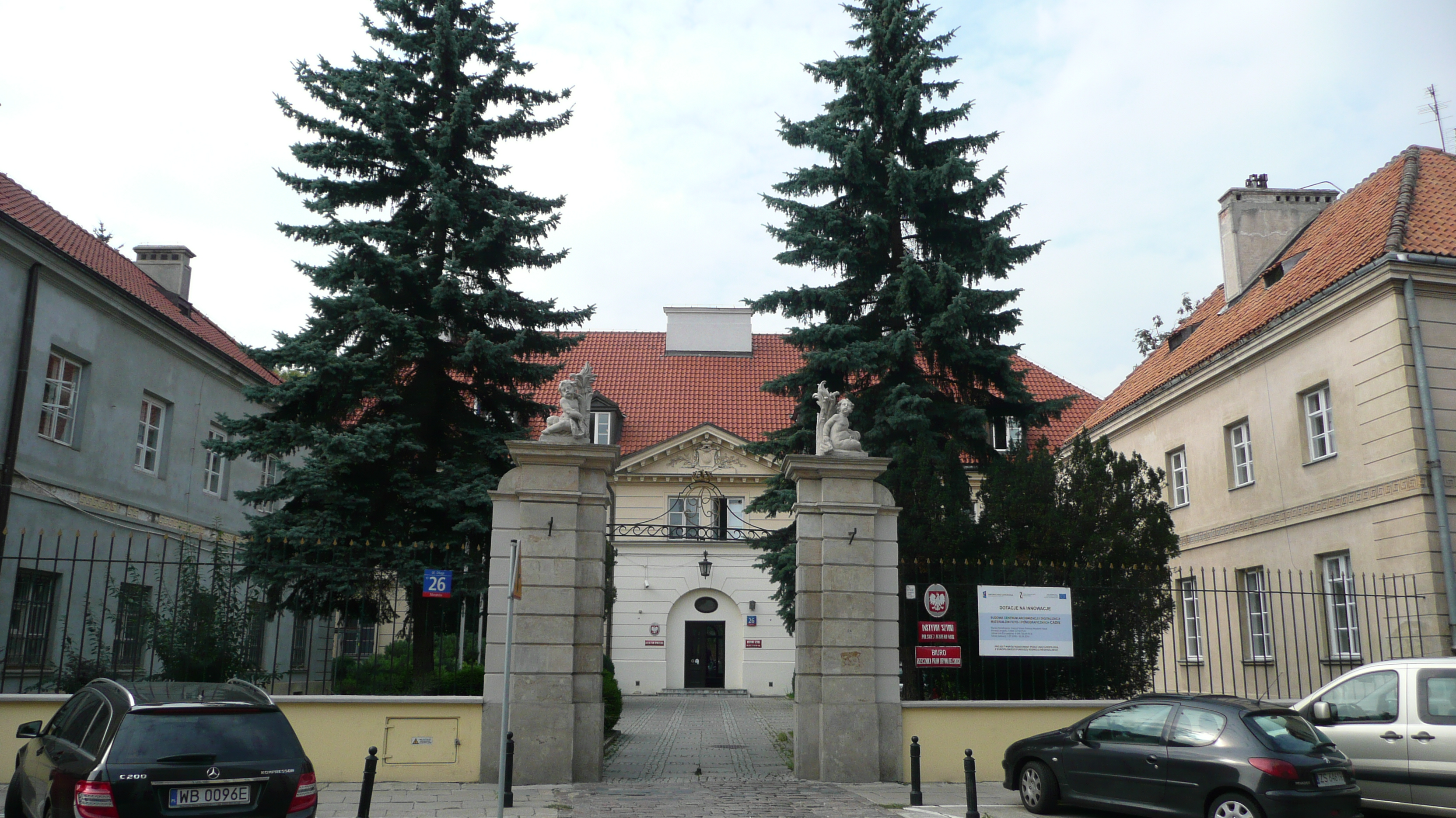 Palace of Maria Radziwiłłowa in Warsaw, 26 Długa Street